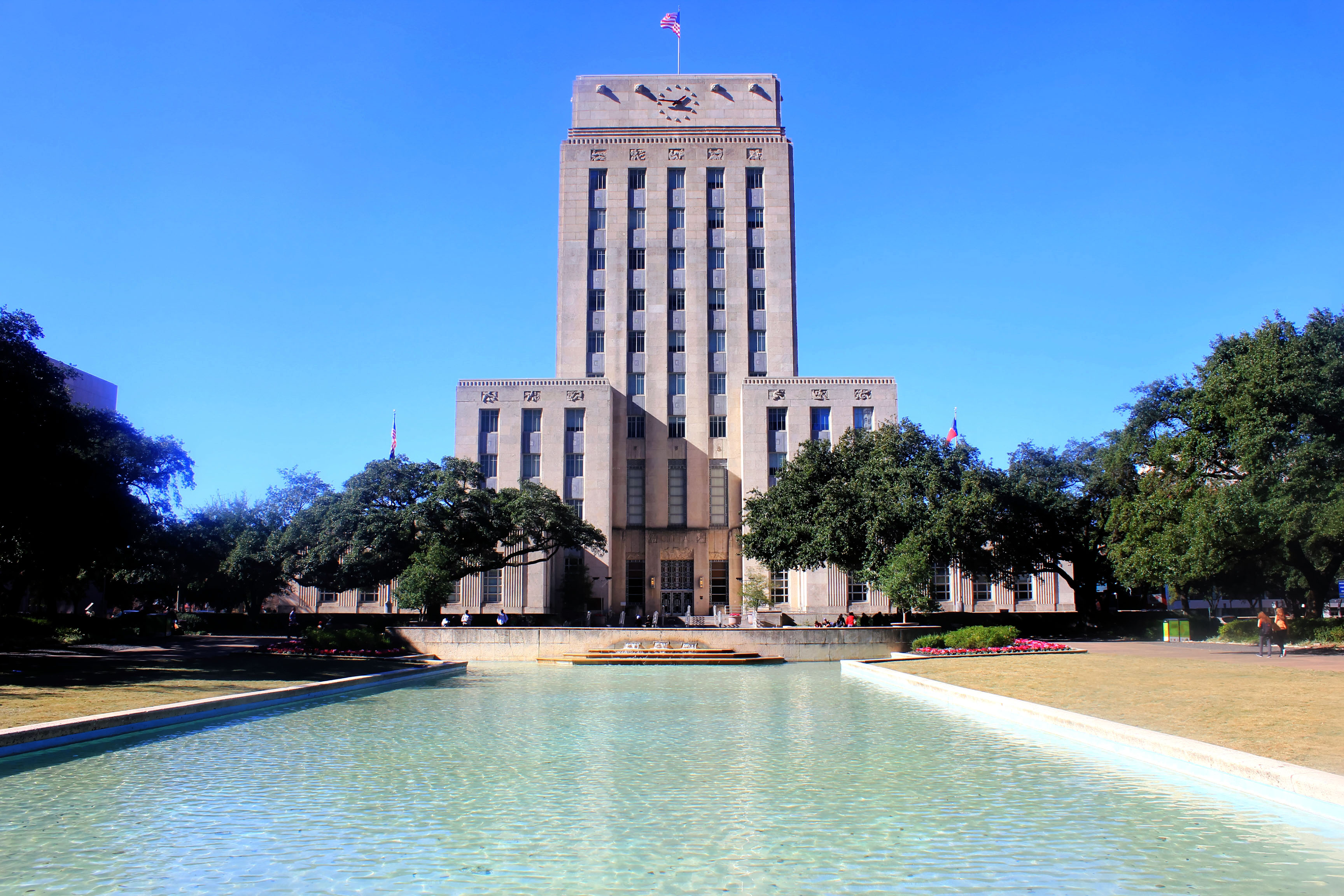 Houston is the largest city in Texas with the six million people in its metro area. Its wide array of parks and attractions make it an attractive city for touri Central building in houston at the head of the pool